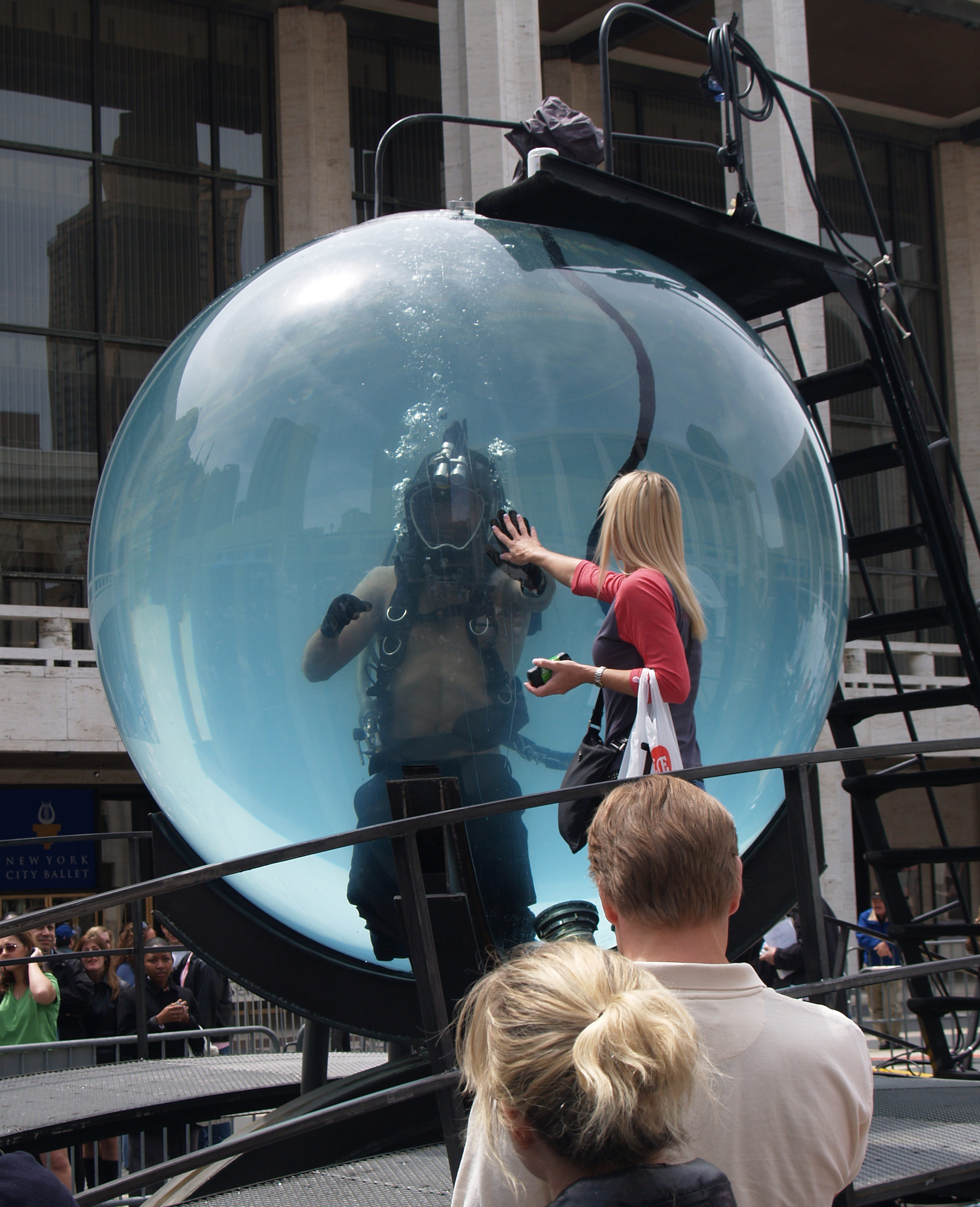 David Blaine in a bubble.